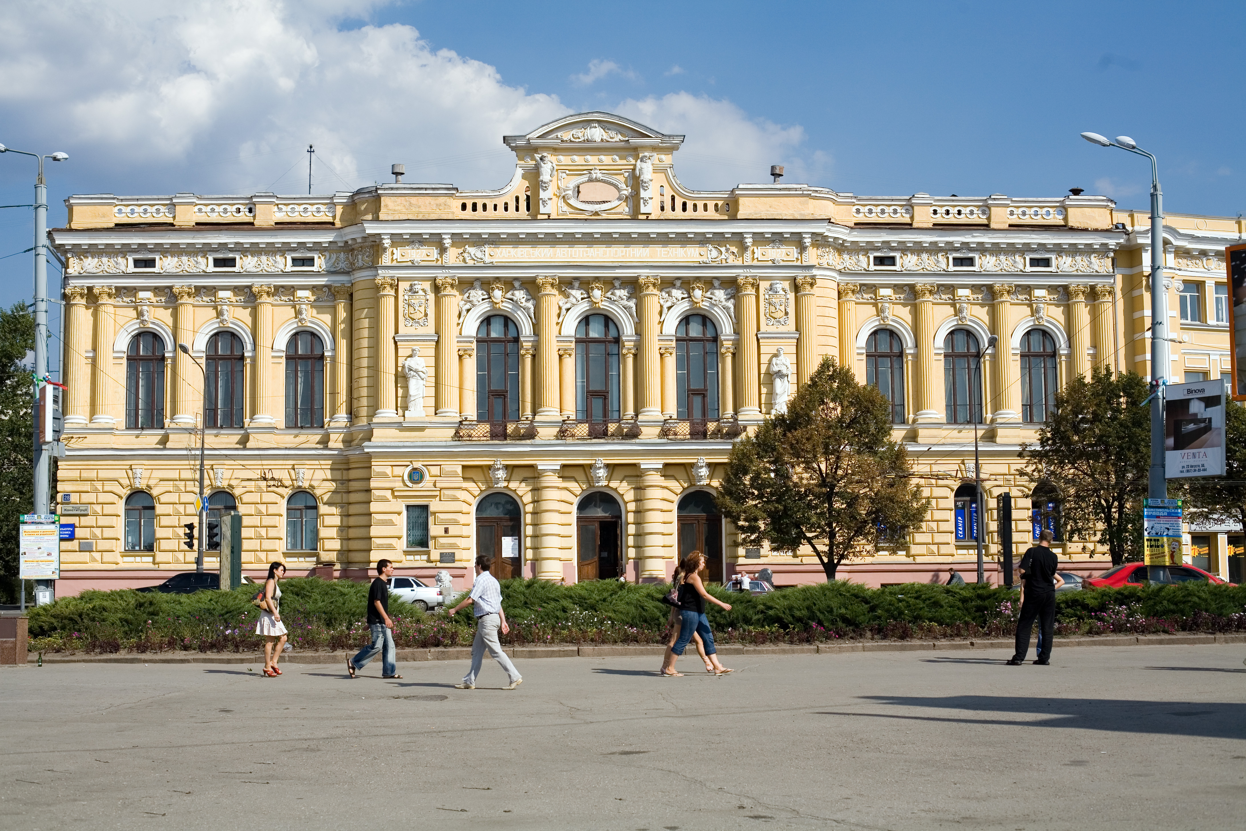 Kharkov AUTO technikum (not radio!)